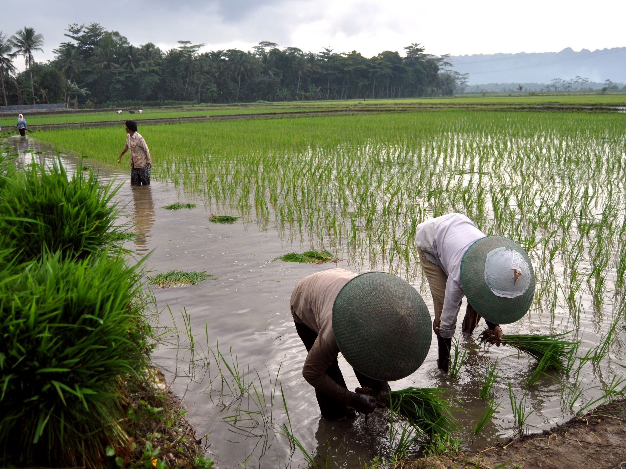 Planting rice in Gebangsari Village, Banyumas, Central Java.